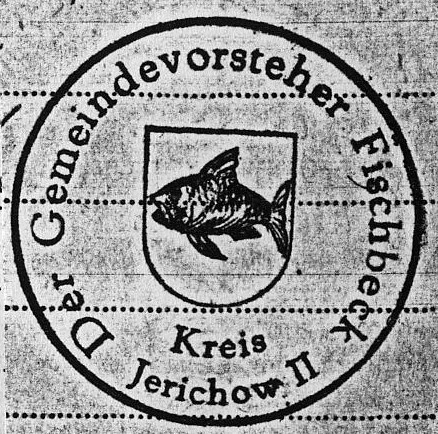 Seal of Fischbeck, Germany